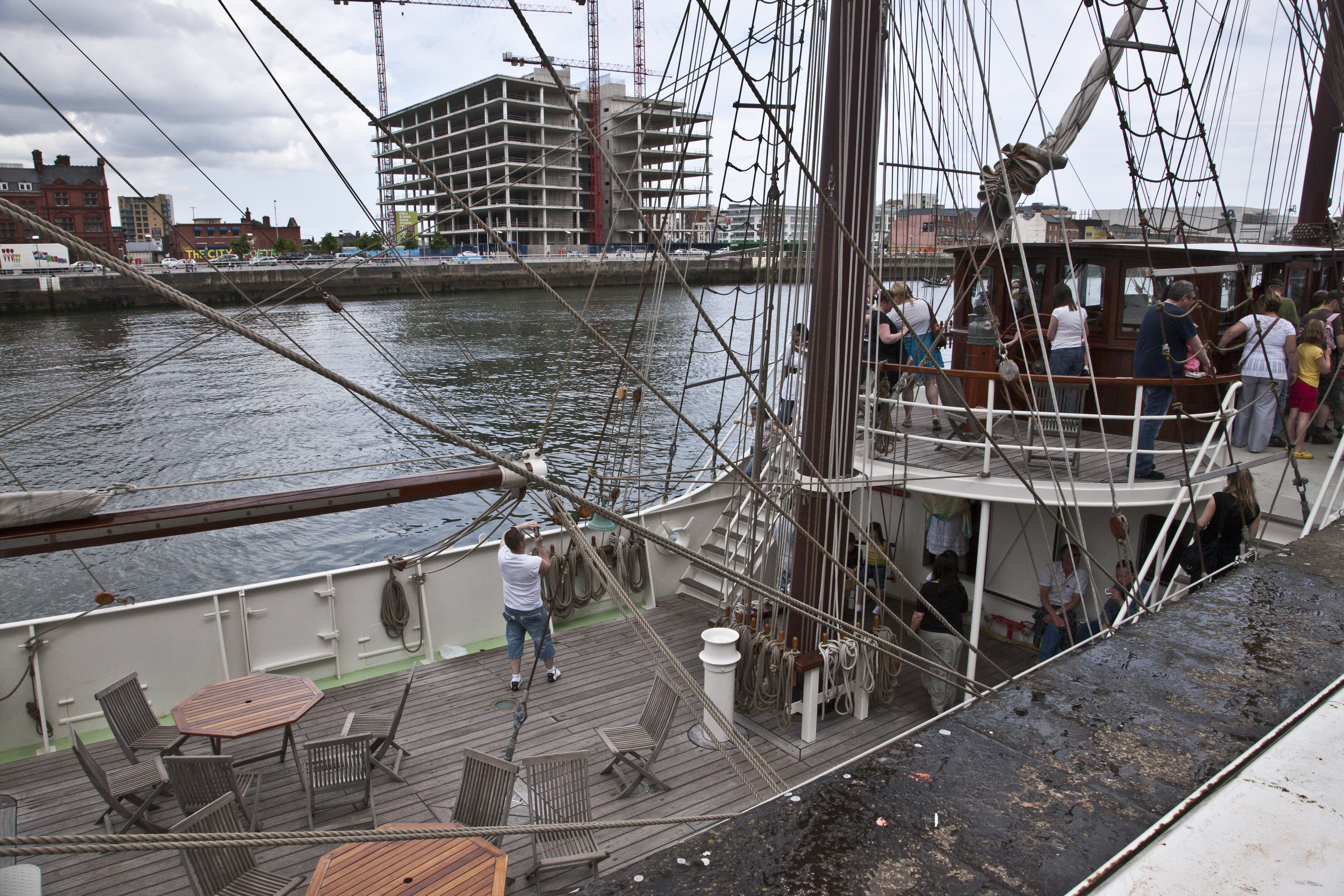 ARTEMIS Artemis was built in Norway in 1926 and operated as a whaling ship mainly in the northern and southern polar seas. From her home port in Oslo, she sailed to Spitsbergen and into the Bering Sea, fitted with a steam engine, two auxiliary masts and a variety of harpoon guns. During the 1950’s Artemis was then refitted to haul cargo and operated mainly as a tramp freighter between Asia and South America until she became unable to compete with newer and larger boats. She is now an elegant reminder of a time before diesel engines transformed boat design. Restored and refitted into a passenger ship, she boasts two salons holding over a hundred people in comfort and style. In 2001 she changed hands and was reconverted into an elegant sailing ship. The Artemis now plies the seas in the form of an imposing three-masted barque.